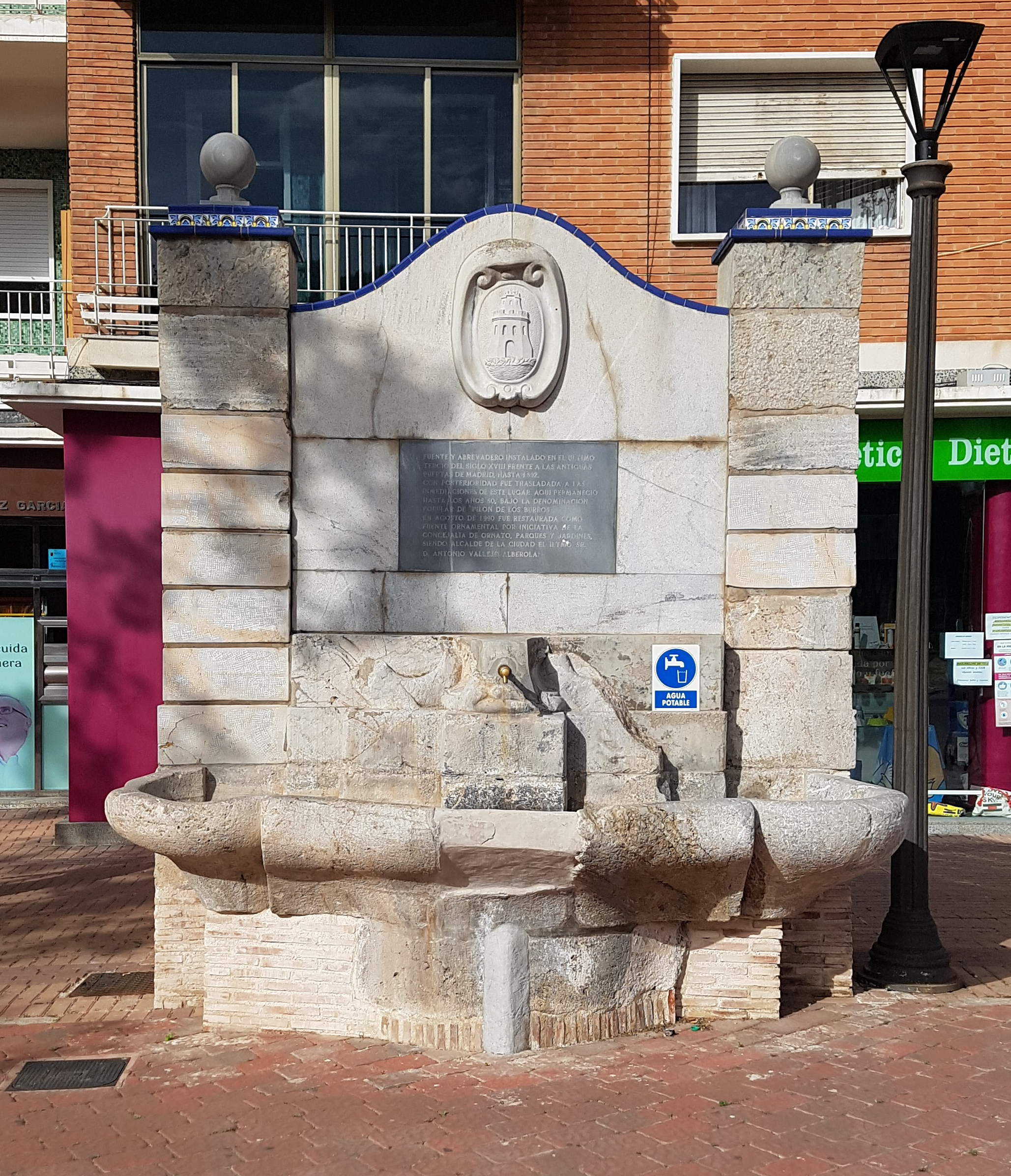 The Pilón de los Burros, a fountain and former watering trough preserved in Cartagena (Spain) since at least the 16th century.